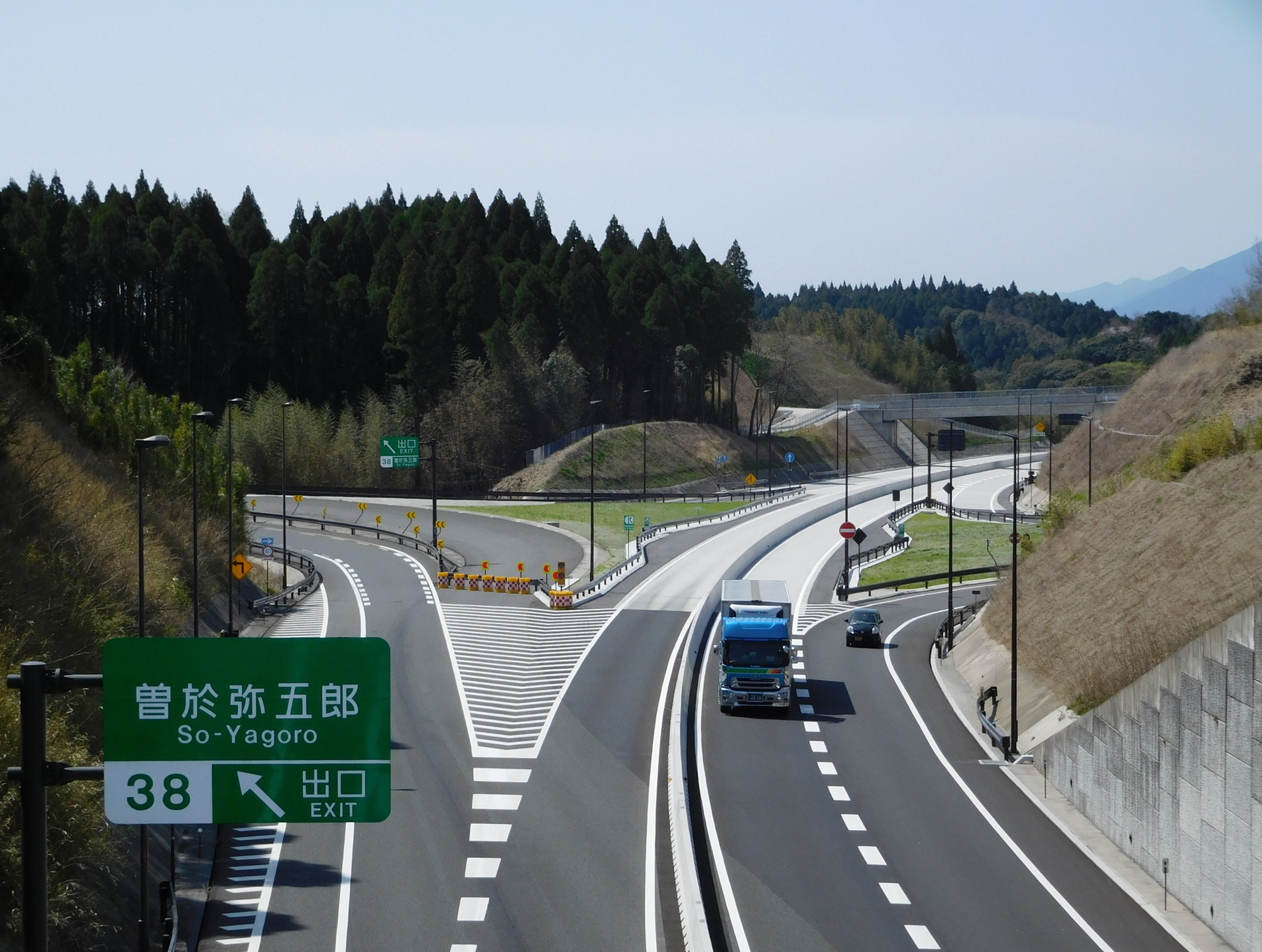 Soo-Yagoro Interchange on the Higashi-Kyushu Expressway in Iwagawa, Soo City, Kagoshima Prefecture, Japan